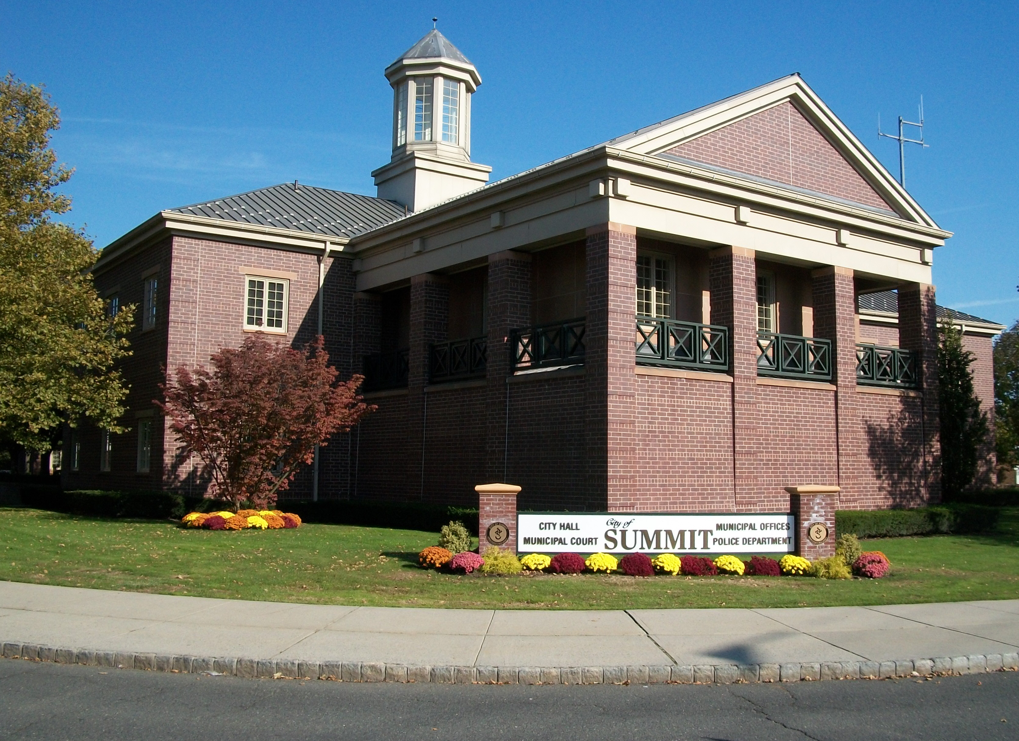 Summit City Hall, Summit, NJ, on October 20, 2009; the building includes a police station, garage, courtroom, and other rooms.